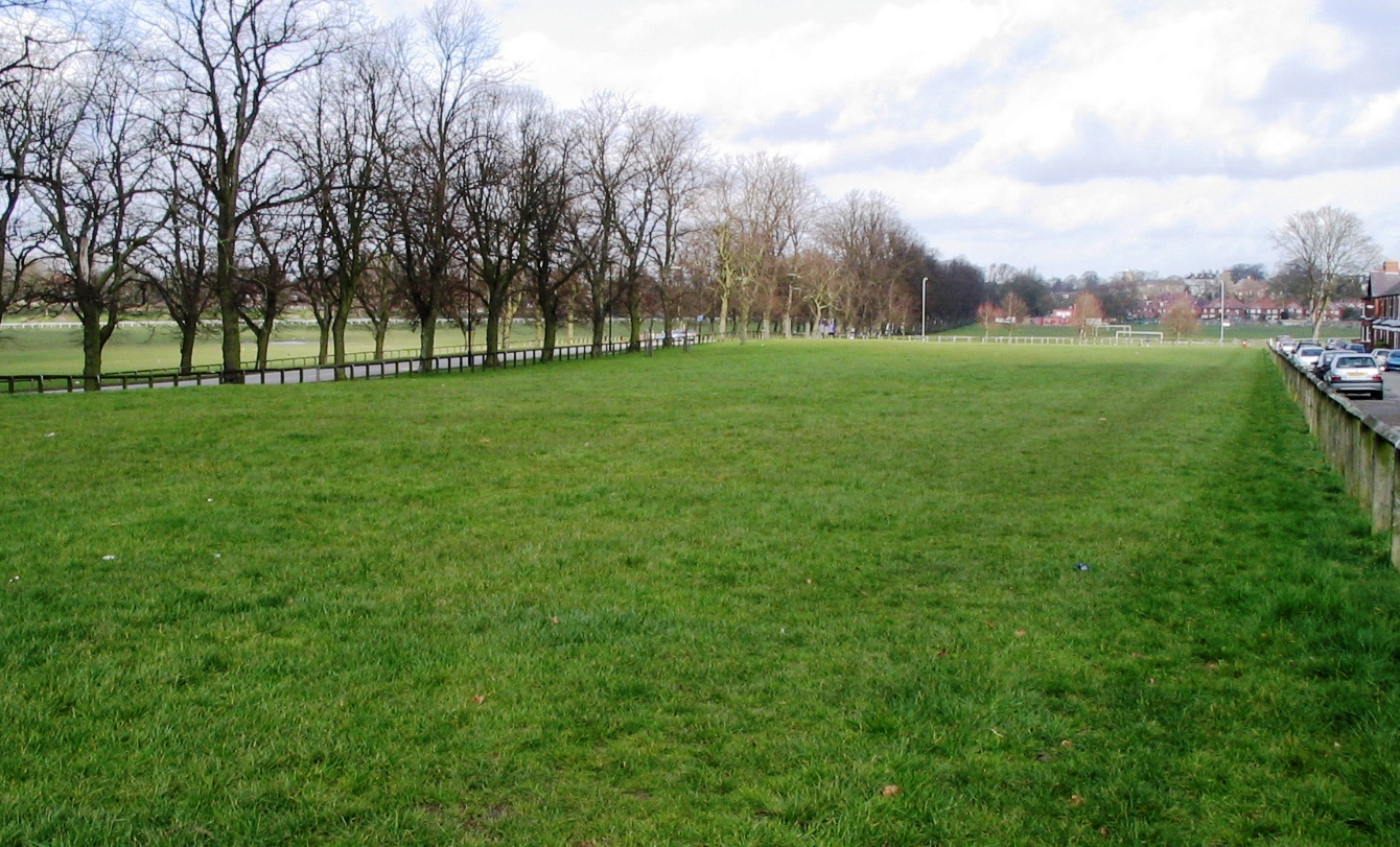 Knavesmire from Southbank, York , United Kingdom